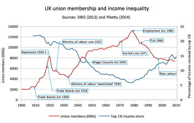 Source: Brownlie and DBIS (2012) and Thomas Piketty, Table S9.2 in FiguresTablesSupp, Technical Appendices to Capital in the 21st Century (2014)